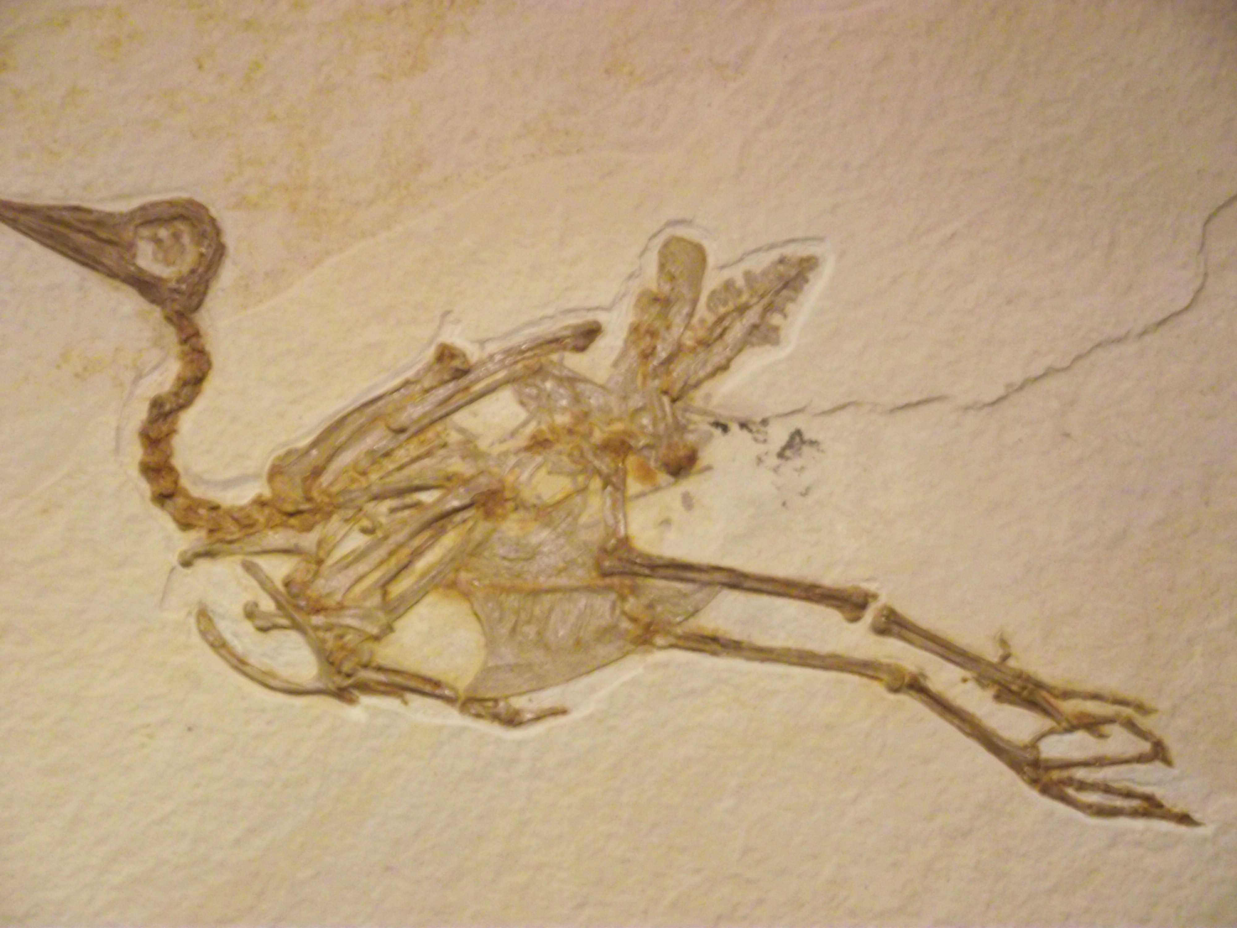 Ottawa - Museum of Nature